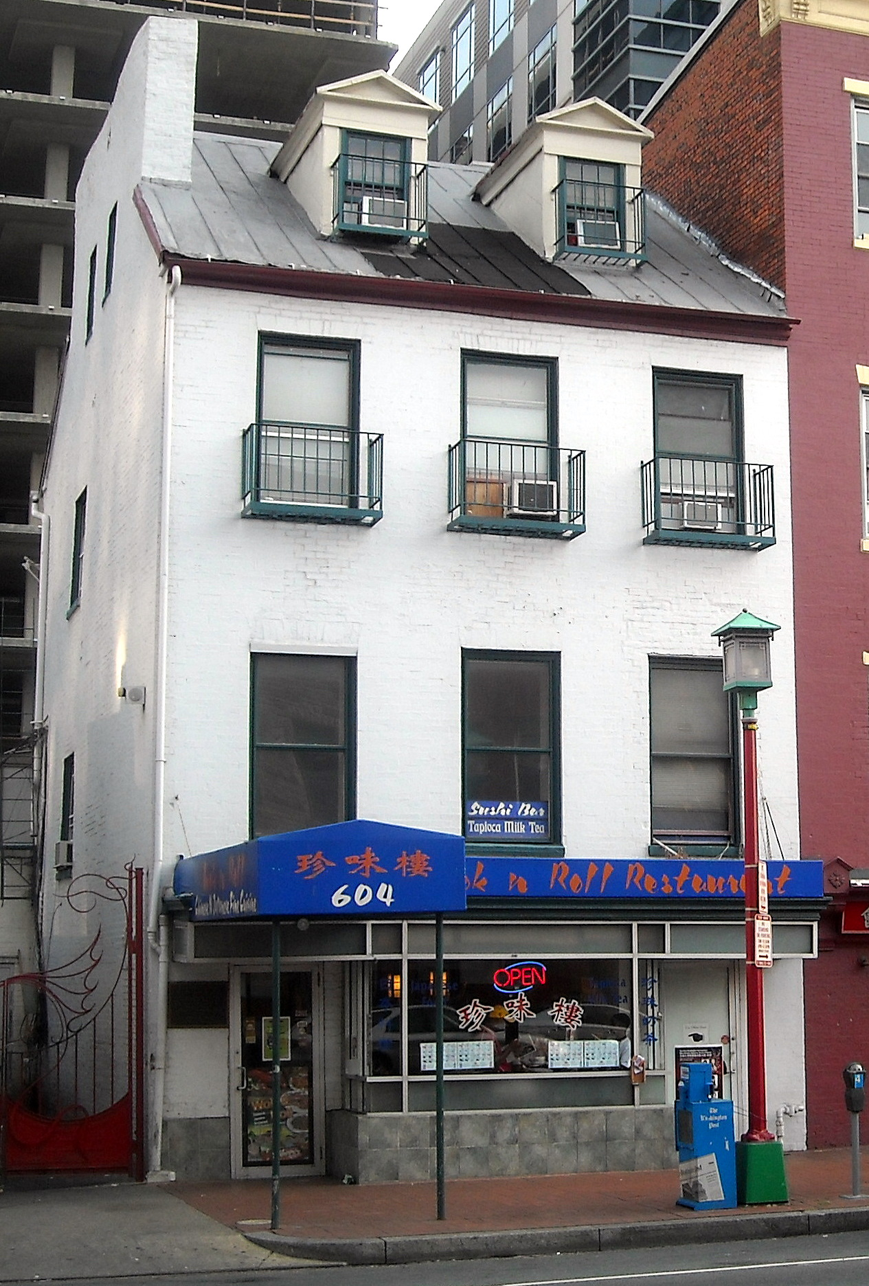 The Mary E. Surratt Boarding House located at 604 H Street NW in the Chinatown neighborhood of Washington, D.C. The building is now home to the Wok and Roll restaurant.